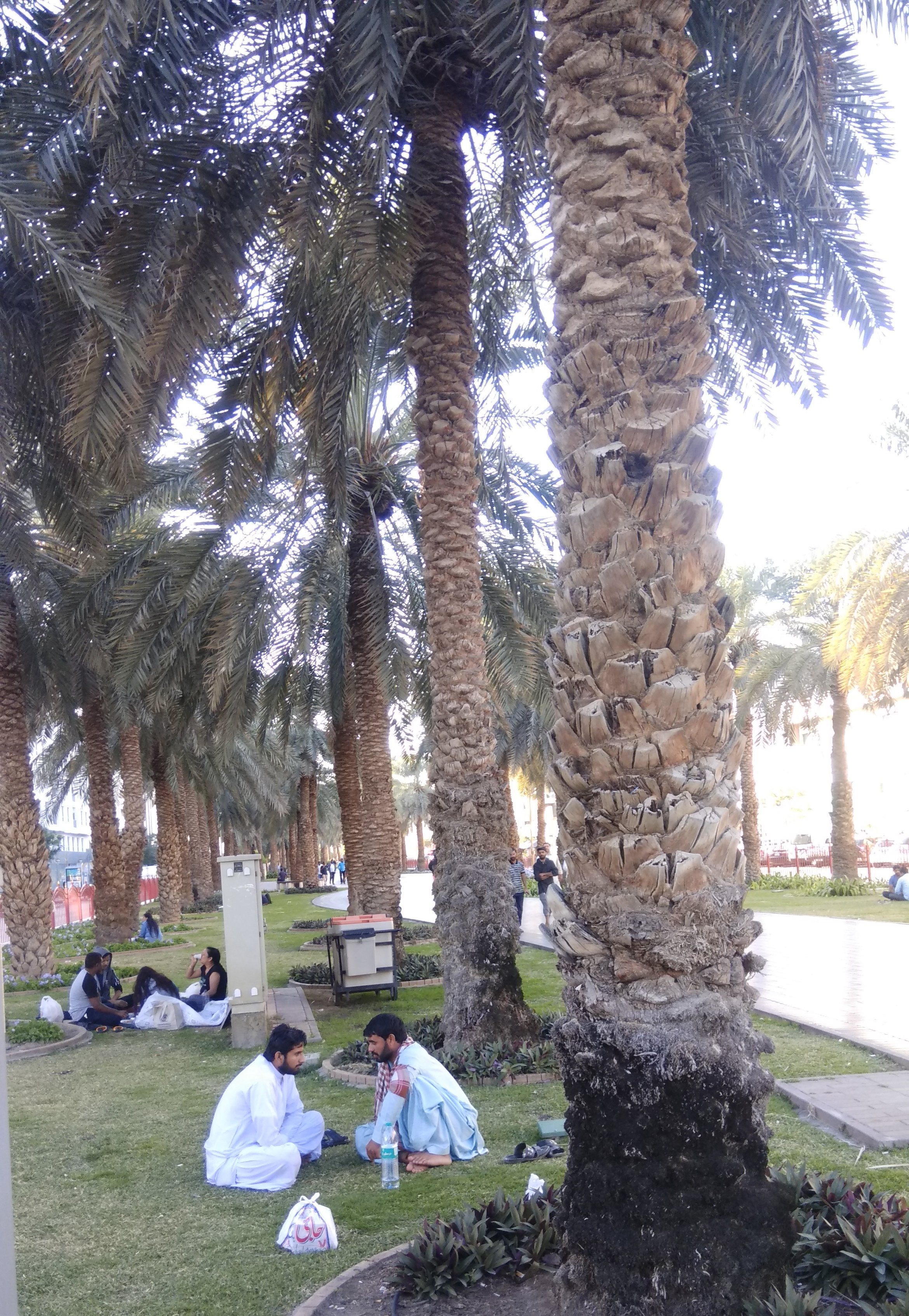 Al Muteena Park,Deira Dubai